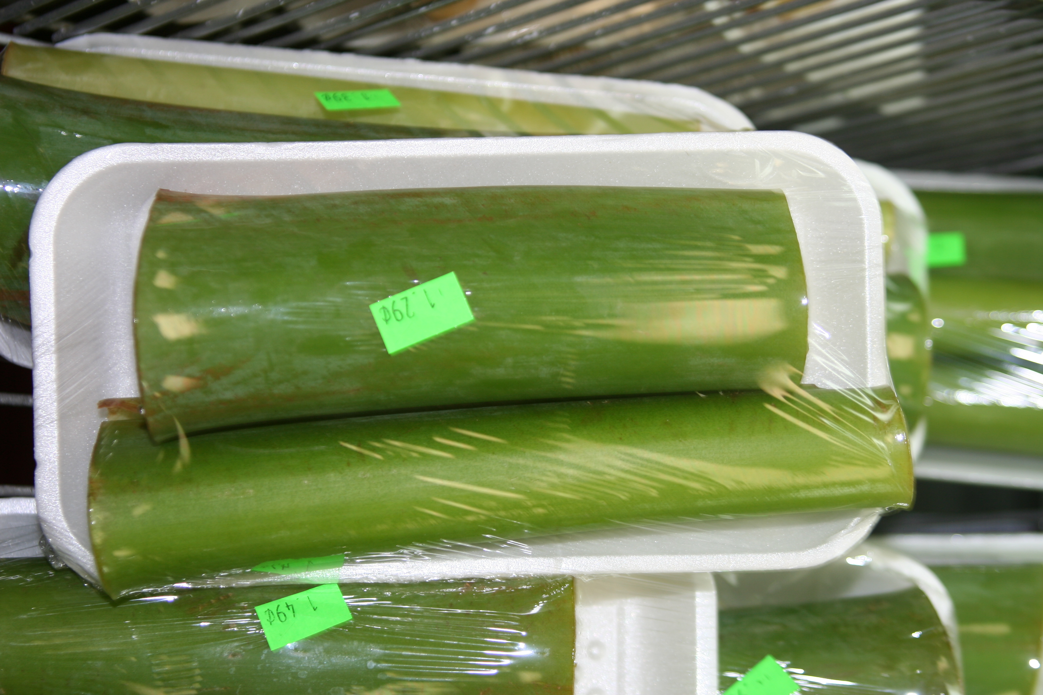 Taro stems for sale in Asian market in California, ChildofMidnight, please attribute